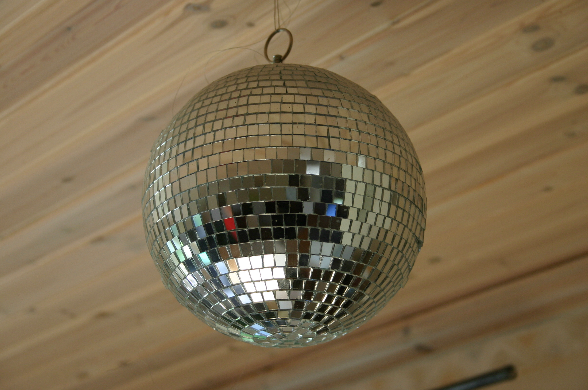 Disco ball, hanging in the ceiling of the living room.